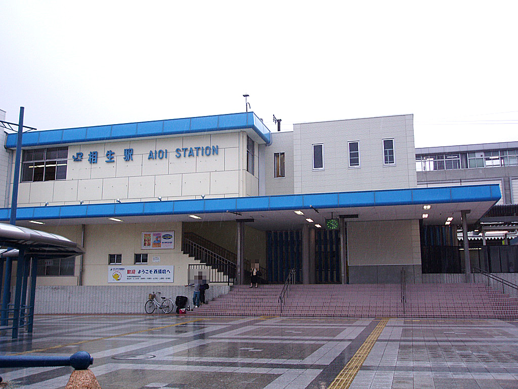 West Japan Railway Sanyō Shinkansen Line & Sanyō Main Line & Akō Line Aioi Station Building South Gate